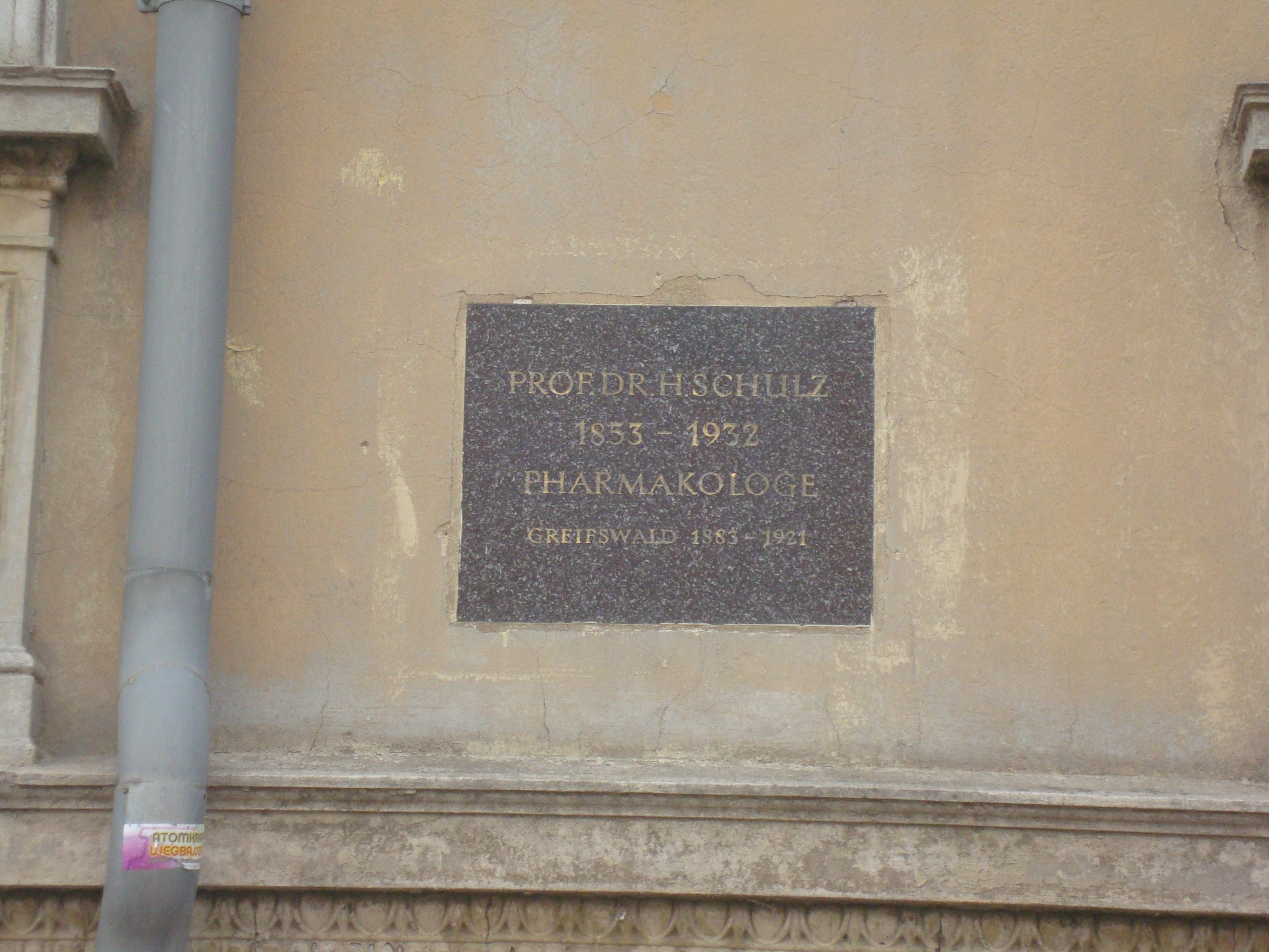 Commemorative plaque for Hugo Schulz at Bahnhofstraße 51 in Greifswald, Germany.